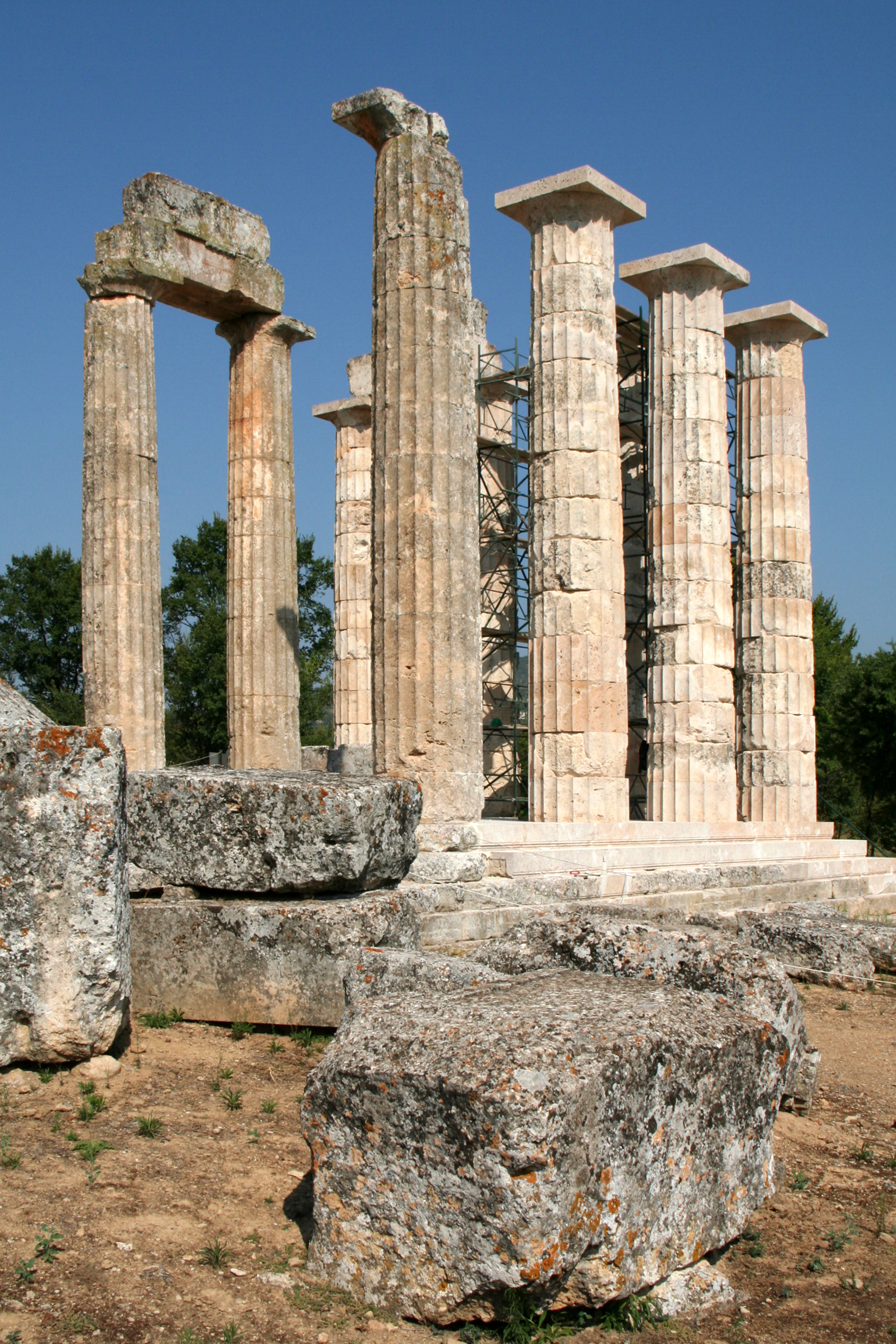 Temple of Zeus, Nemea 330 - 320 BC